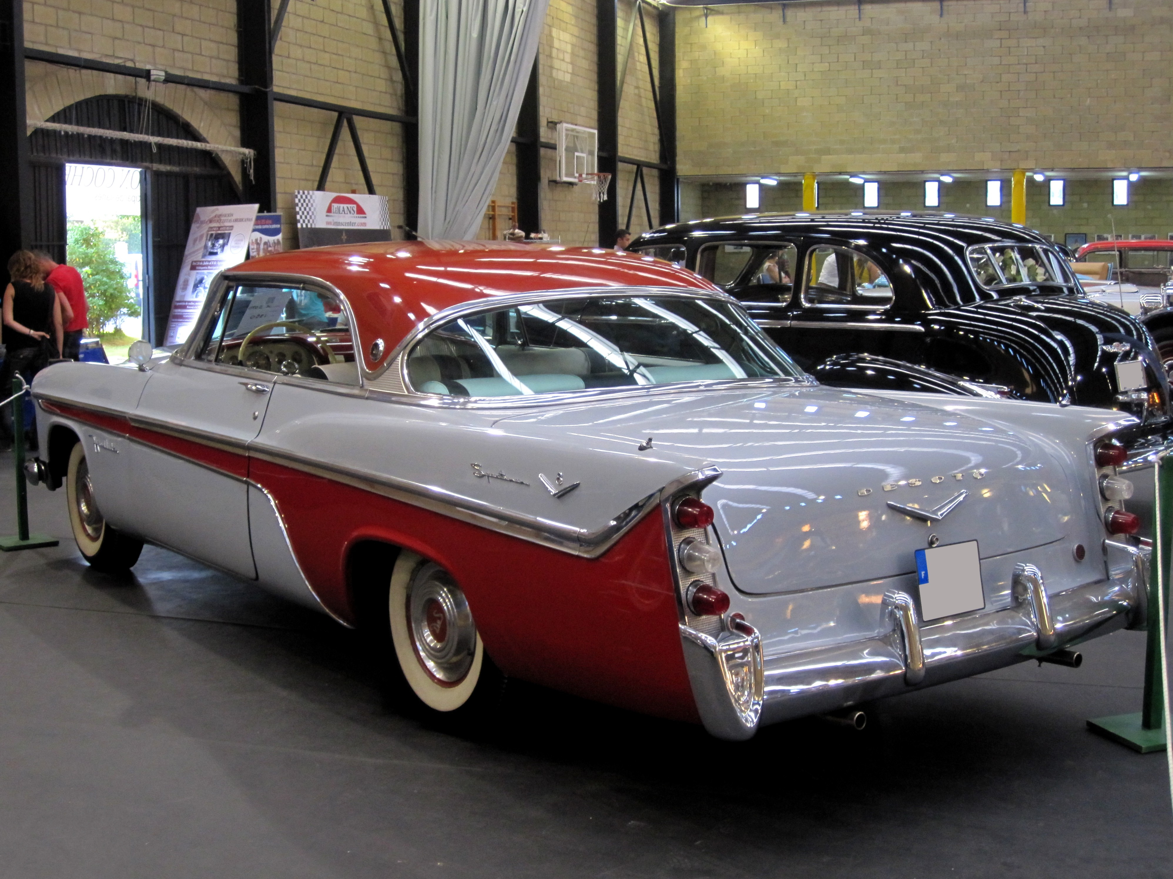 The sign on the front windscreen said 1950 but checking on Google there was no Fireflite for 1950... and I found out this is actually a 1956, is it right? It had French plates.